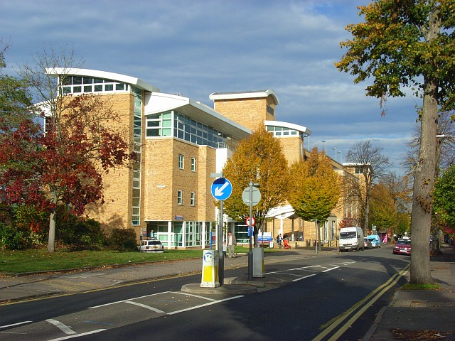 The new Craven Road entrance block of the Royal Berkshire Hospital in Reading, Berkshire, England. For more information see the Wikipedia article Royal Berkshire Hospital.